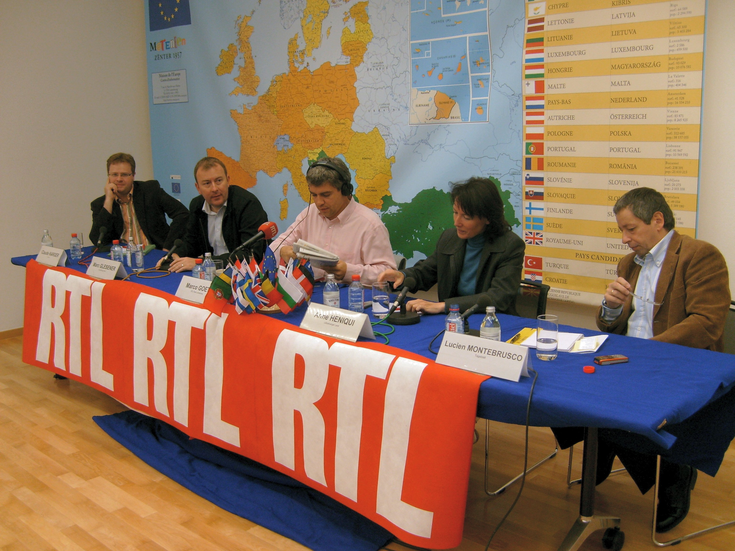 Round table with the press called "Presseclub" organized every fortnight on Sundays by RTL Radio Luxembourg. Here a special edition with public audience at the House of Europe in Luxembourg-city.